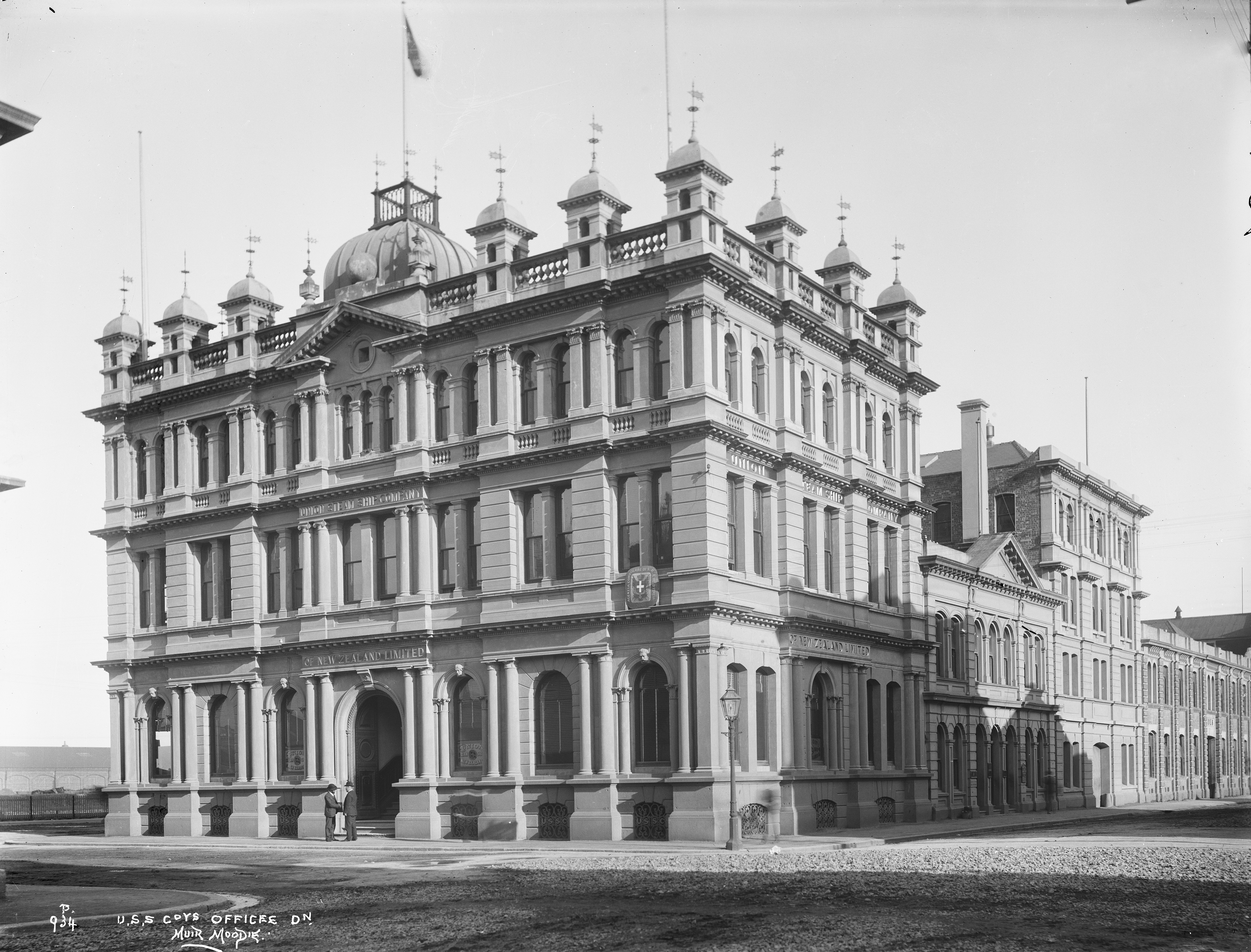 49 Water Street, Dunedin Built for head office of the Union Steam Ship Company of New Zealand which moved to Wellington in 1921. 1929 it was sold to National Mortgage and Agency Source New Zealand Heritage List No. 9577, Category 1